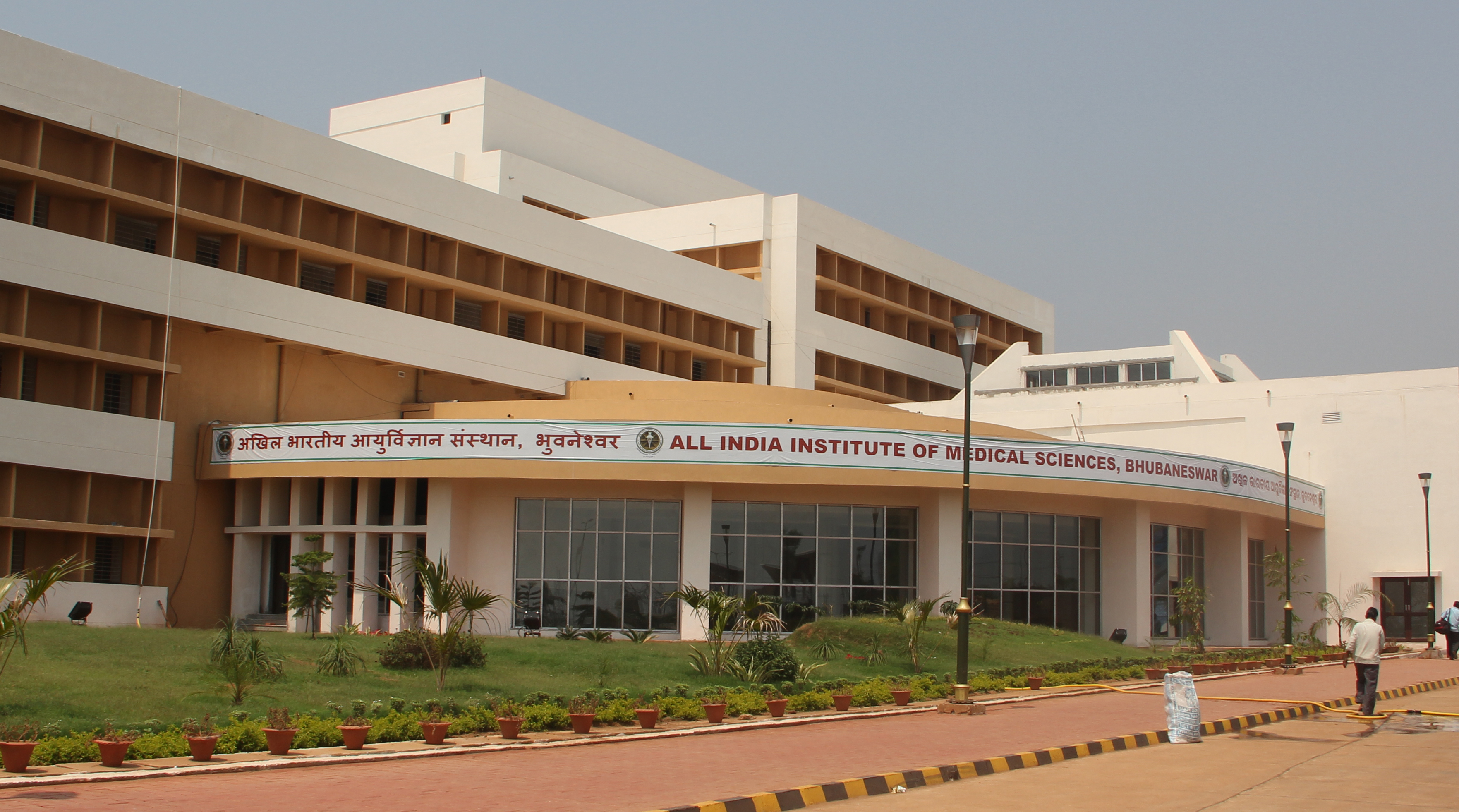 ଓଡ଼ିଆ: All India Institute of Medical Sciences, Bhubaneswar Sijua, Patrapada, Bhubaneswar, Odisha 751019